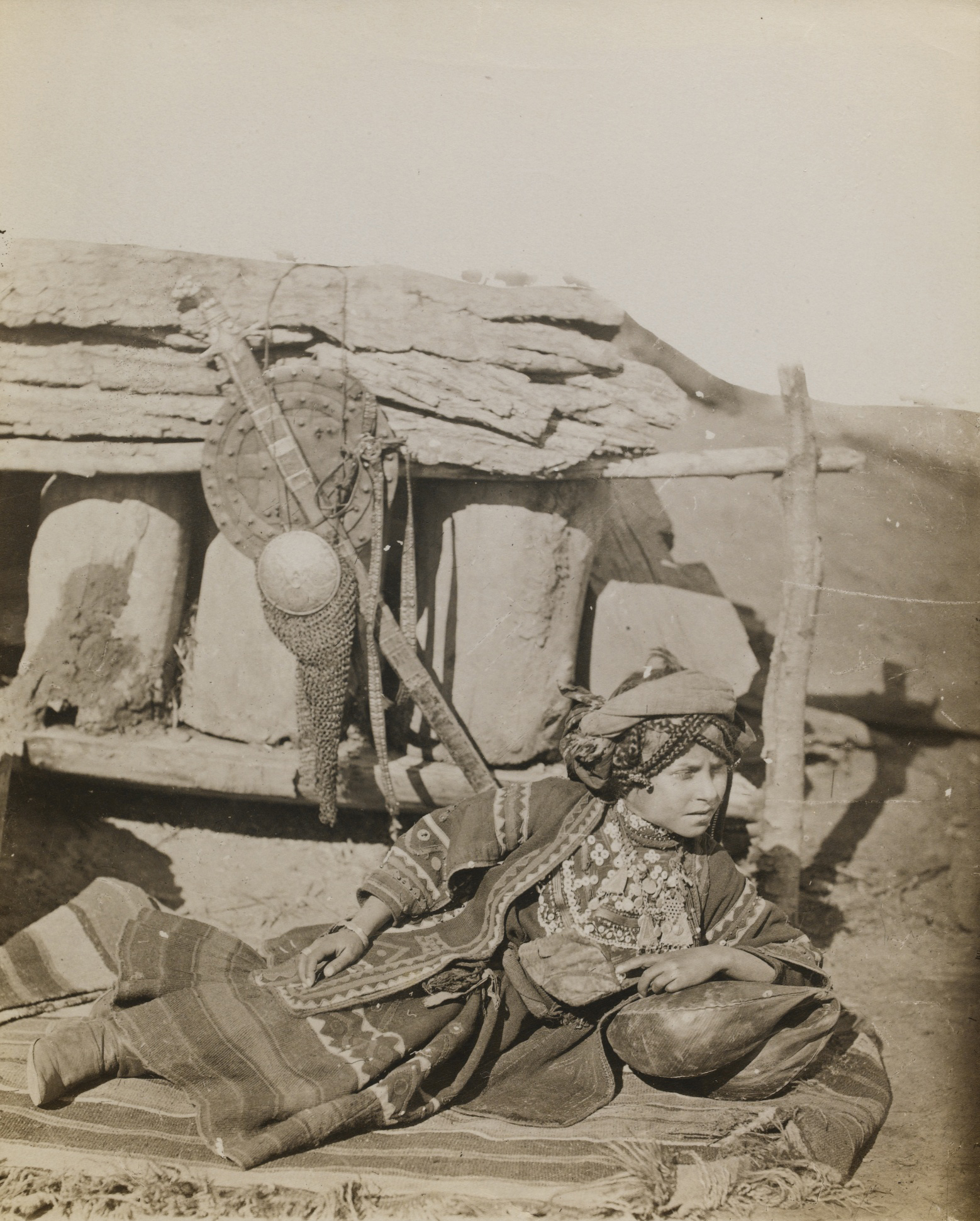 Khevsur girl